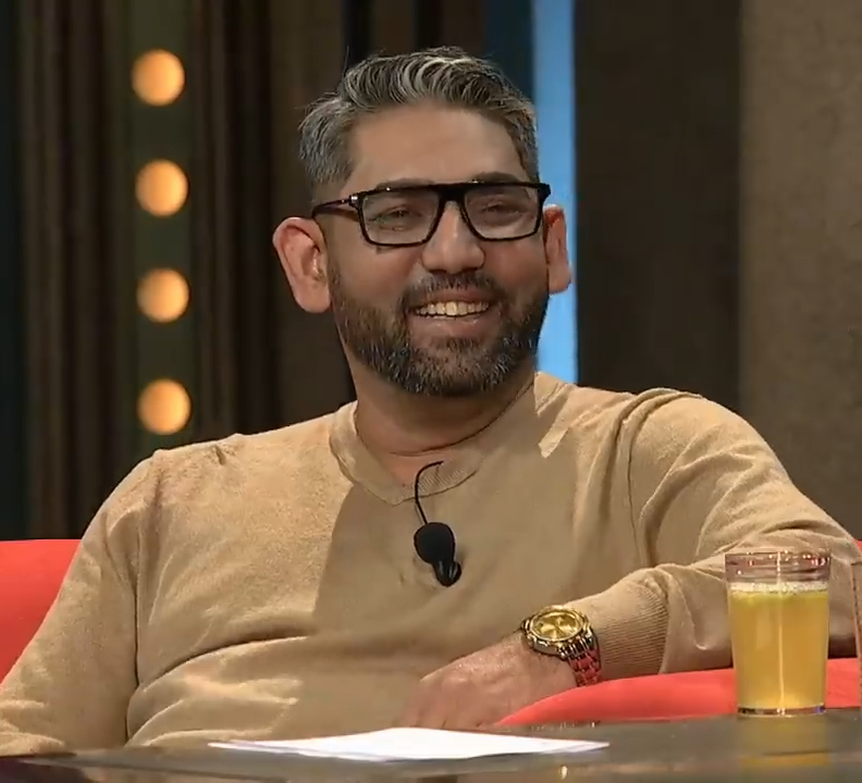 Czech actor Zdeněk Godla